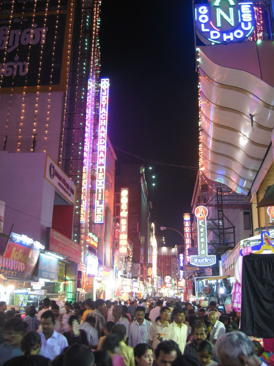 Ranganathan Street, leading to Mambalam railway station.